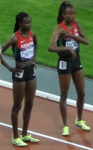 Milcah Chemos Cheywa and Mercy Wanjiku Njoroge lining up for the start of the women's 3000m steeplechase at the 2012 London Olympics